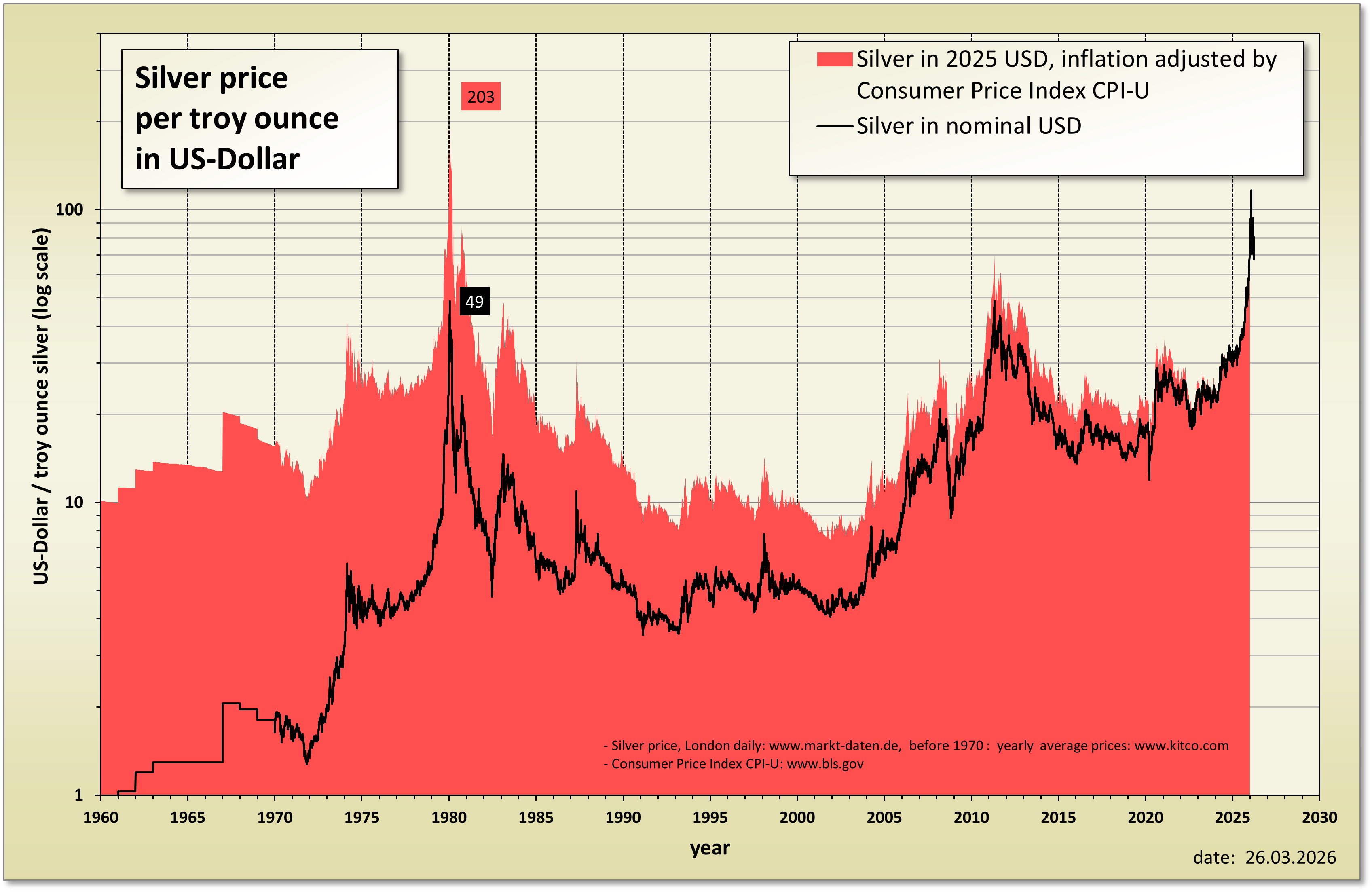 Historical silver price in USD and inflation adjusted silver price in USD. The chart shows Silver Thursday event as a peak in 1980 when Hunt brothers drove up the price of silver through speculations and after it they lost about a billion dollars.